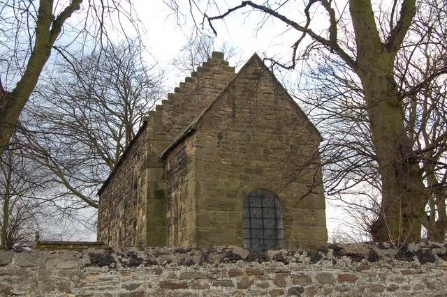 Anglo-Saxon parish church at Escomb, County Durham, seen from east-southeast